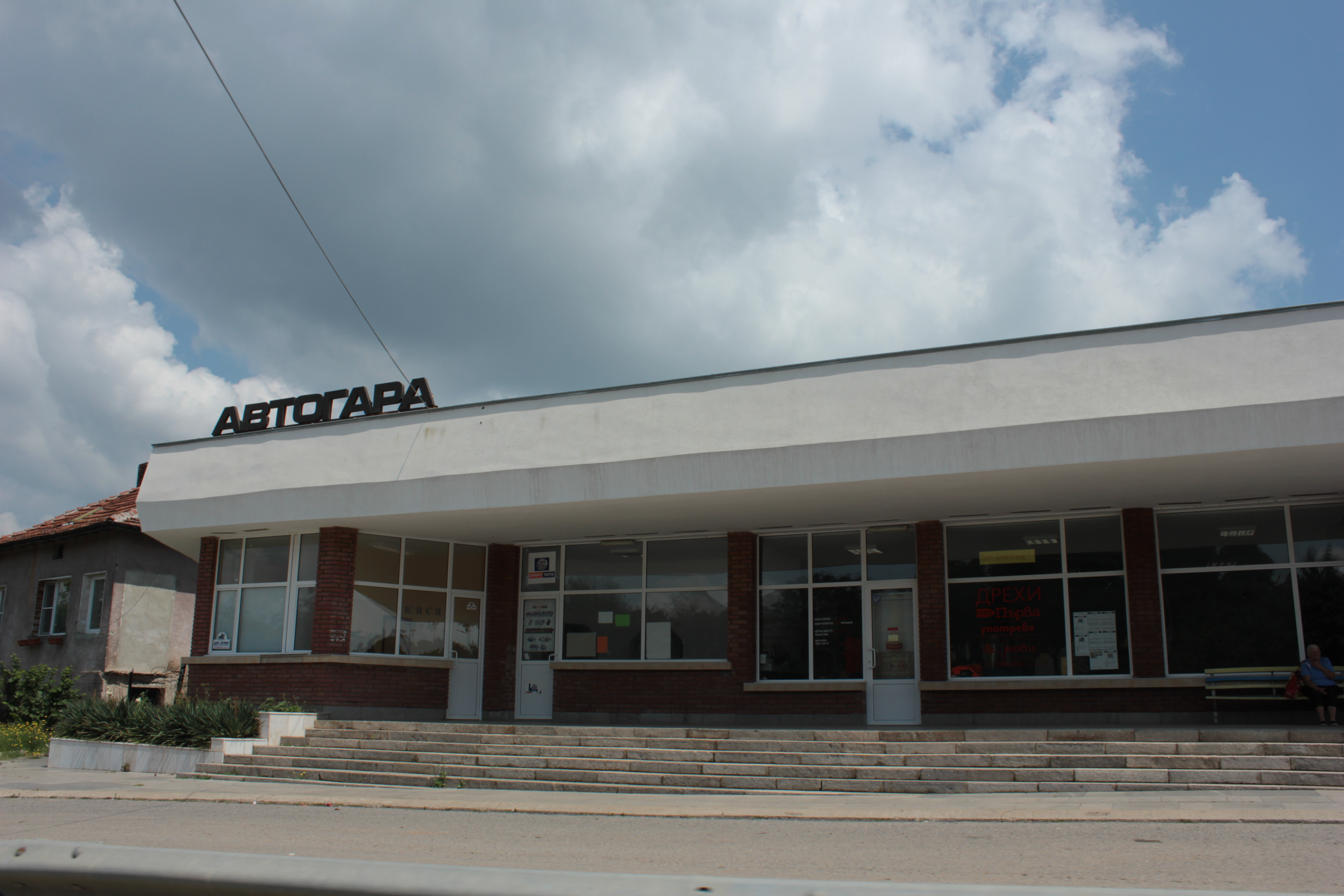 Bus Station in Gorna Malina